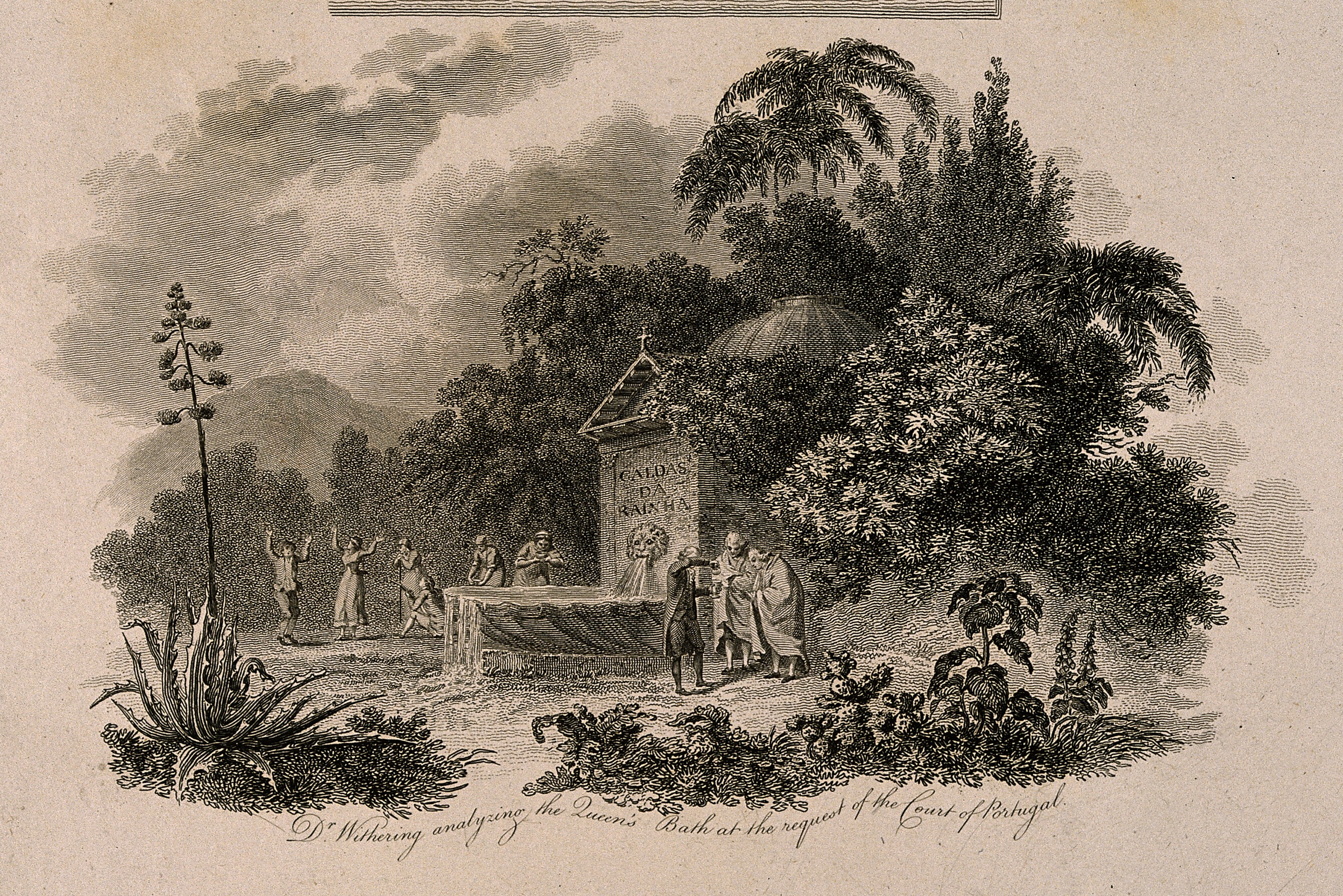 William Withering analysing the waters of the Queen's Bath (Caldas de Rainha) at the request of the Portugese Court, in vignette. Stipple engraving by W. Ridley (?), 1801. Iconographic Collections Keywords: portrait prints; William Ridley; stipple prints; William Withering; Carl Frederik von Breda